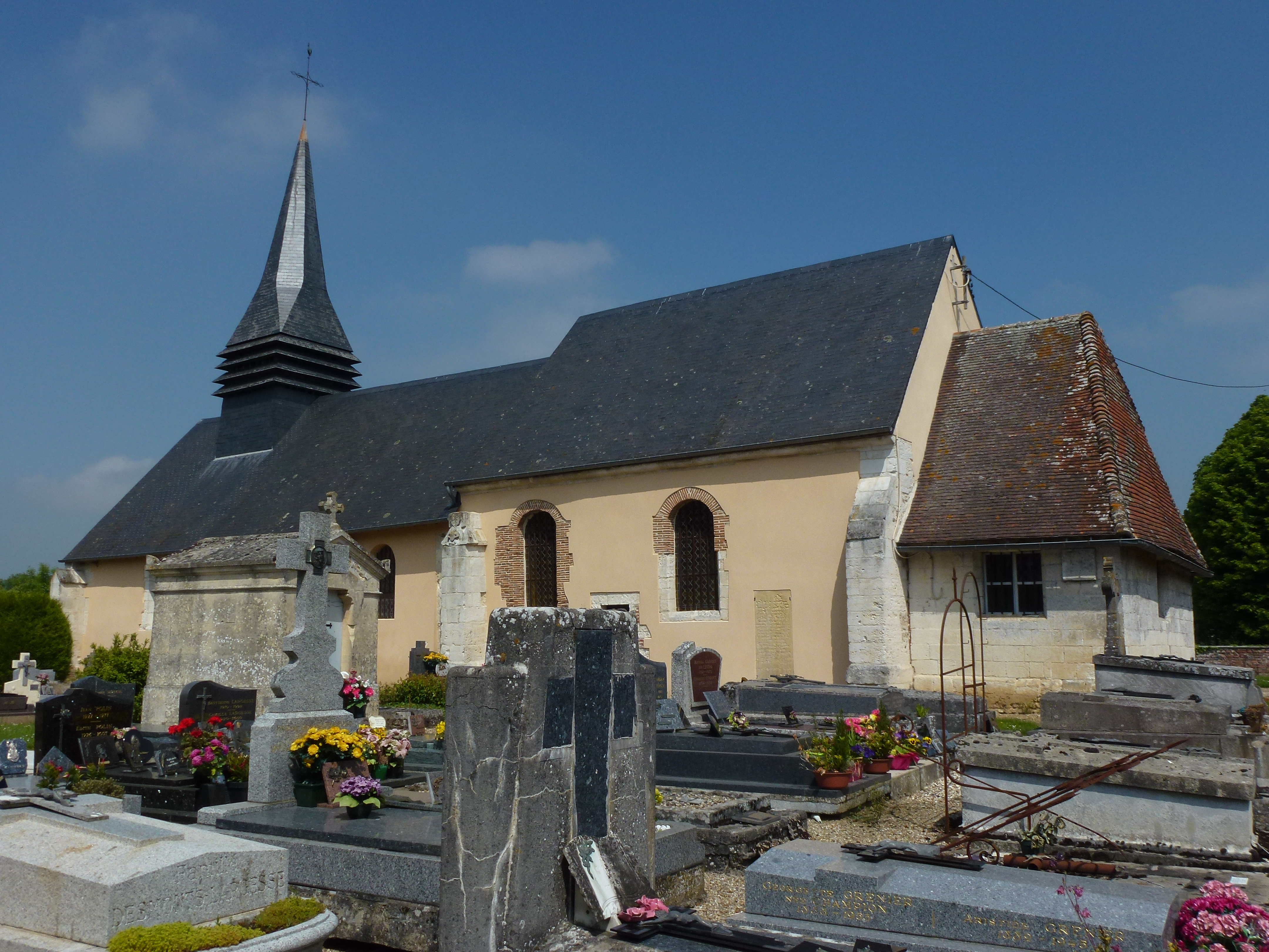 Folleville (Eure, Fr) église Notre-Dame des Chaînes.